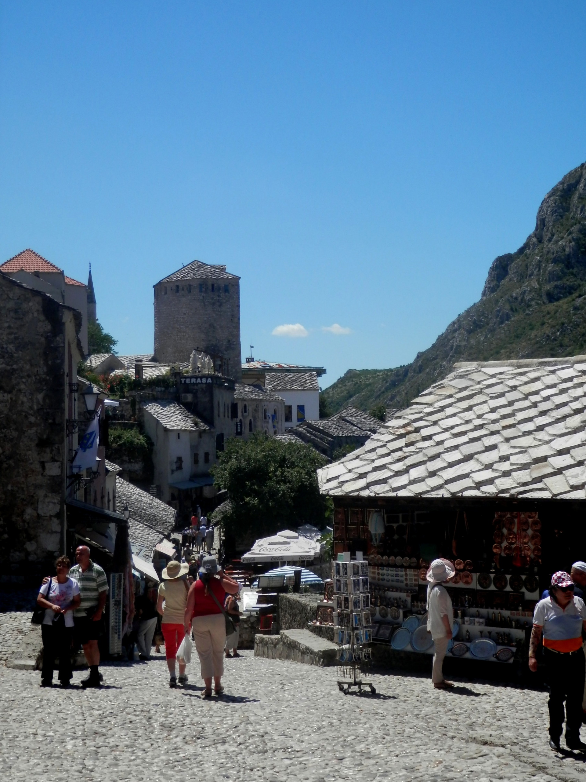 Old Bazar Kujundžiluk